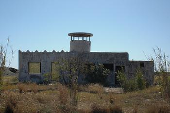 Building and tower of the old Italian Gadurrà Airport (also known in english as Kalathos Airfield) on the island of Rhodes, Grecce.